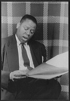 Portrait of William Warfield Portrait of William Warfield